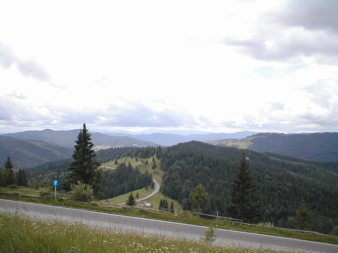 Description: Romania, Carpatian Mountains (it's not in the Ukraine, filename is wrong!) Source: self-made July 2005 Photographer/Painter: Stefan Richter